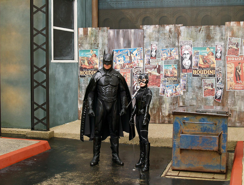 Batman and Catwoman standing together in an alley at Warner Bros. Movie World.